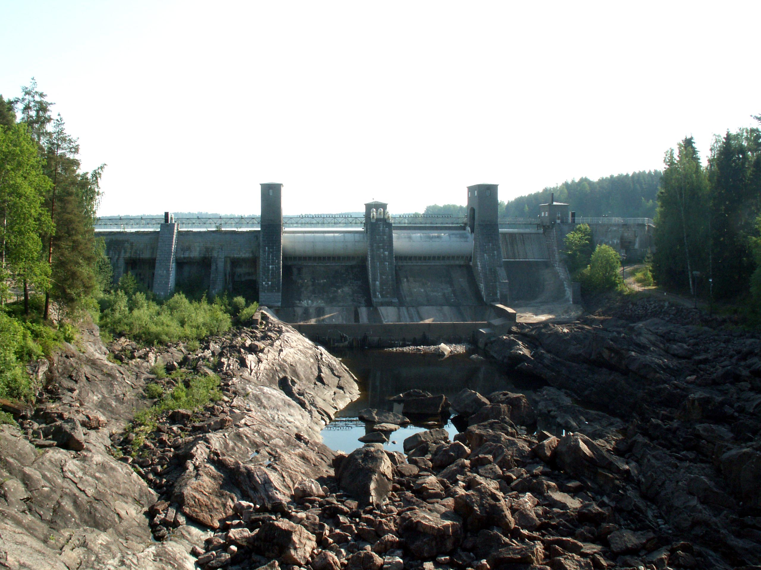 Imatrankoski rapids in Imatra, Finland